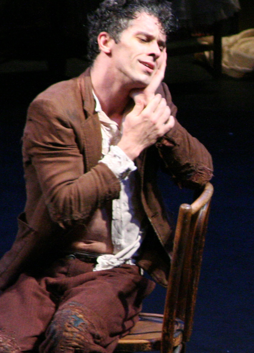 The actor James Thierrée during his show La Veillée des Abysses in Geneva